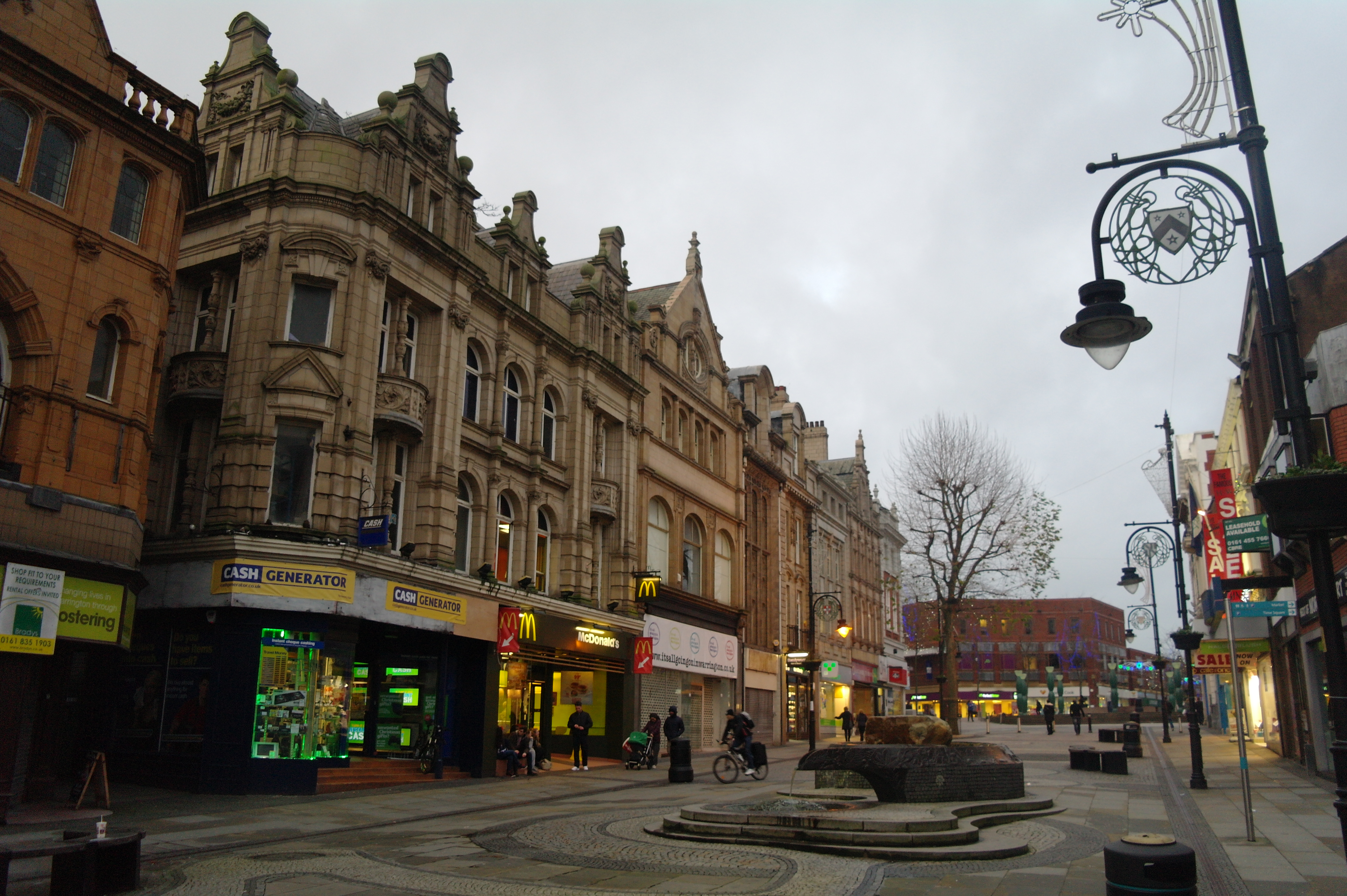 The west frontage of upper Bridge Street in Warrington Cheshire. It shows the elegant late Victorian and Edwardian faience clad upper floors that remain mostly unaltered.